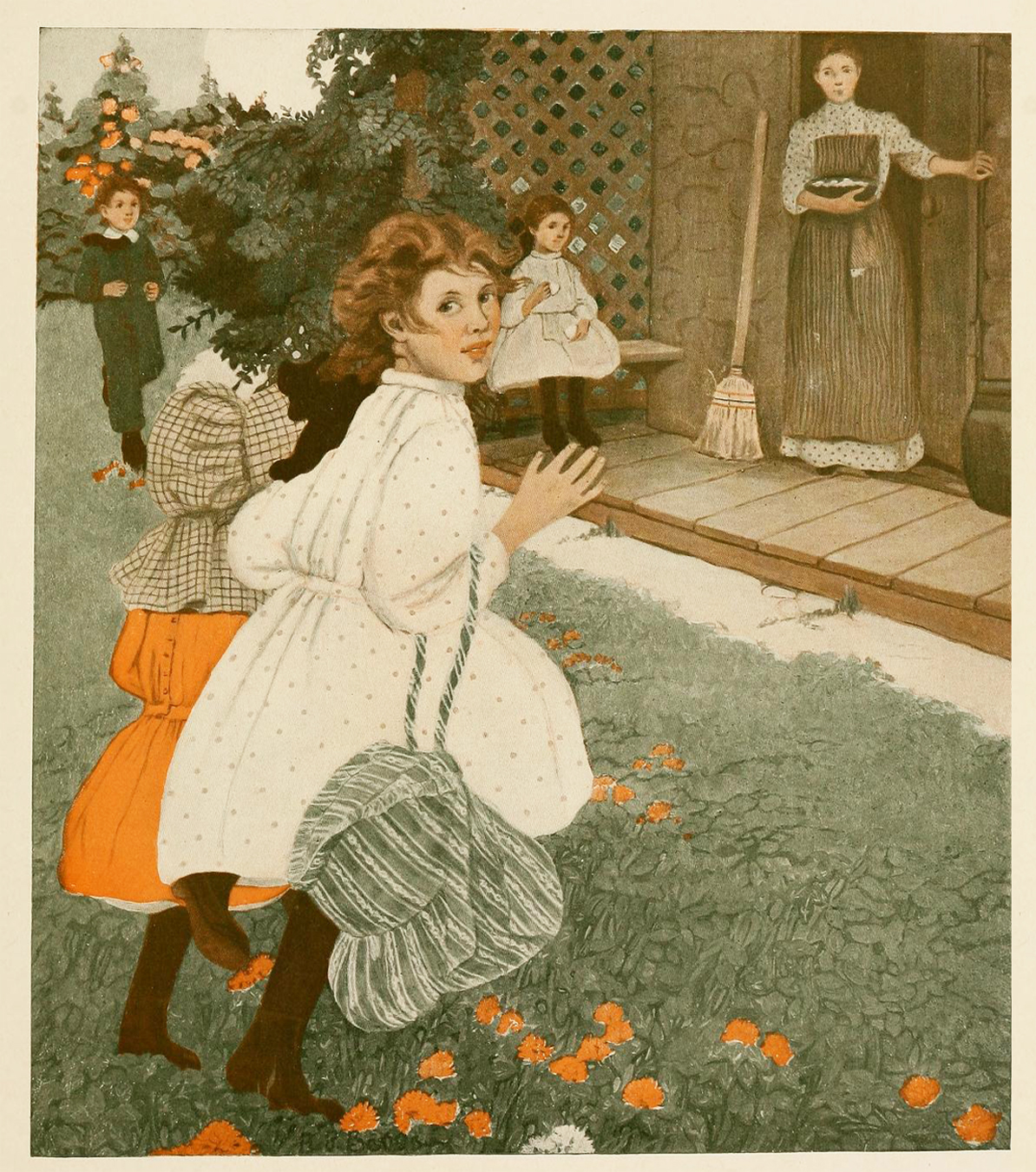 Illustration by Ethel Franklin Betts published in the 1908 book The Orphan Annie by James Whitcomb Riley